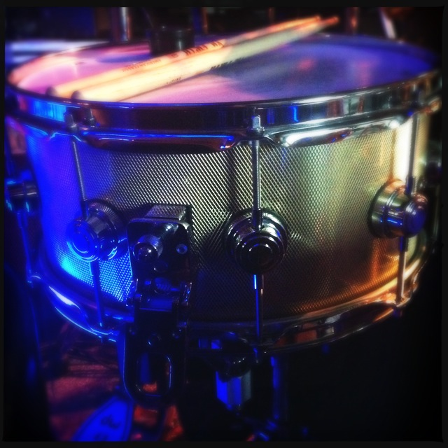 14×6.5 Drum Workshop Collectors Series Brass Snare Drum (Knurled Finish)